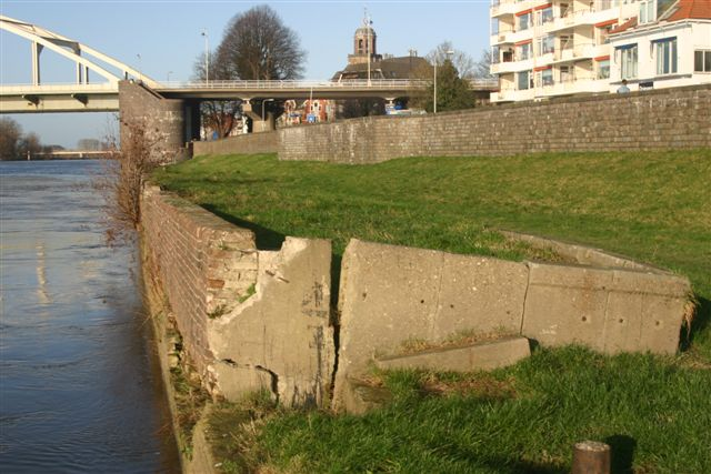 Pothoofdkade before the renovation of circa 2010. See also File:Uitstekend punt voorm bolwerk pothoofd TN.JPG.